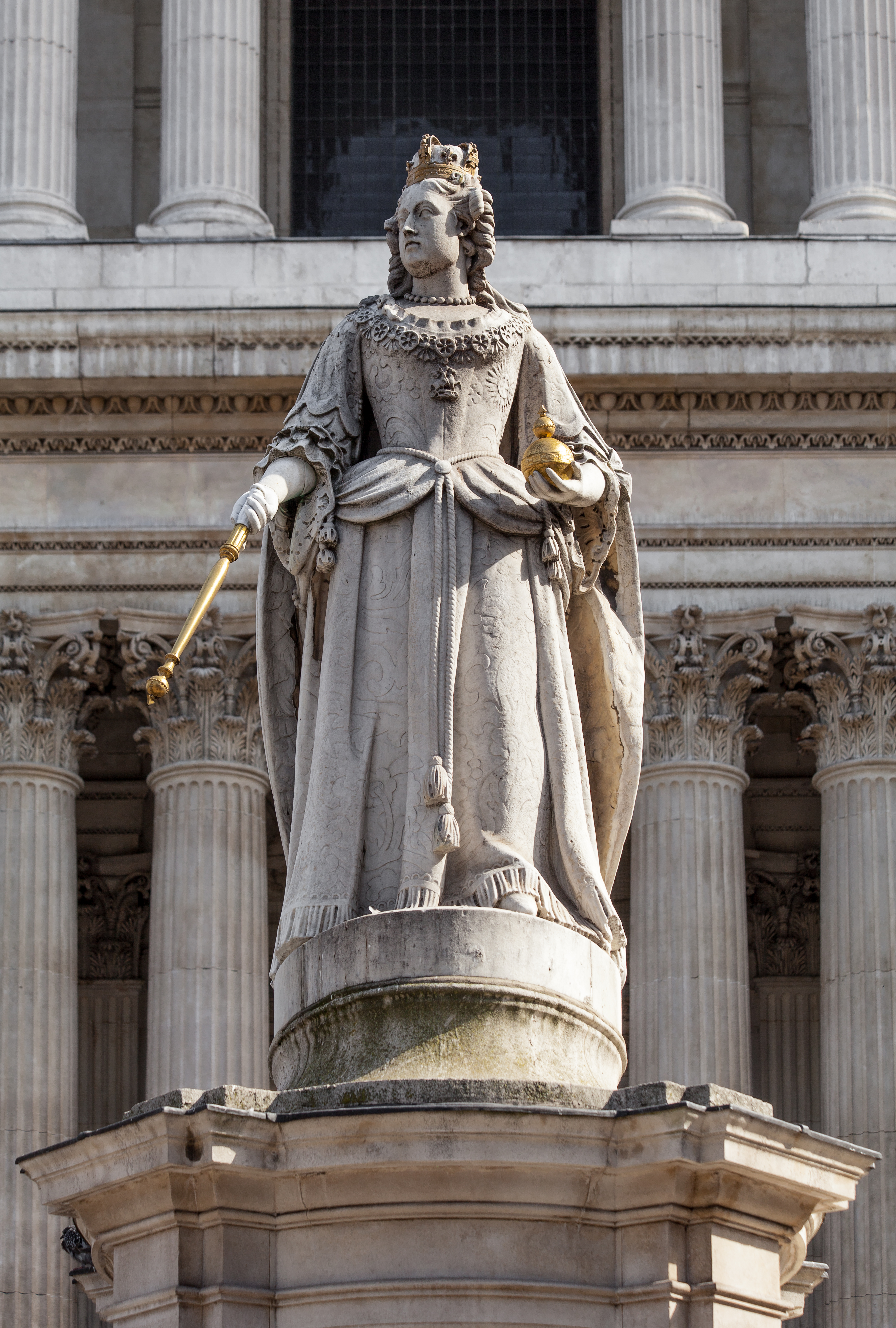 Statue of Anne of Great Britain in front of the west facade St Paul's Cathedral. The statue was erected in 1712 and created by Francis Bird.